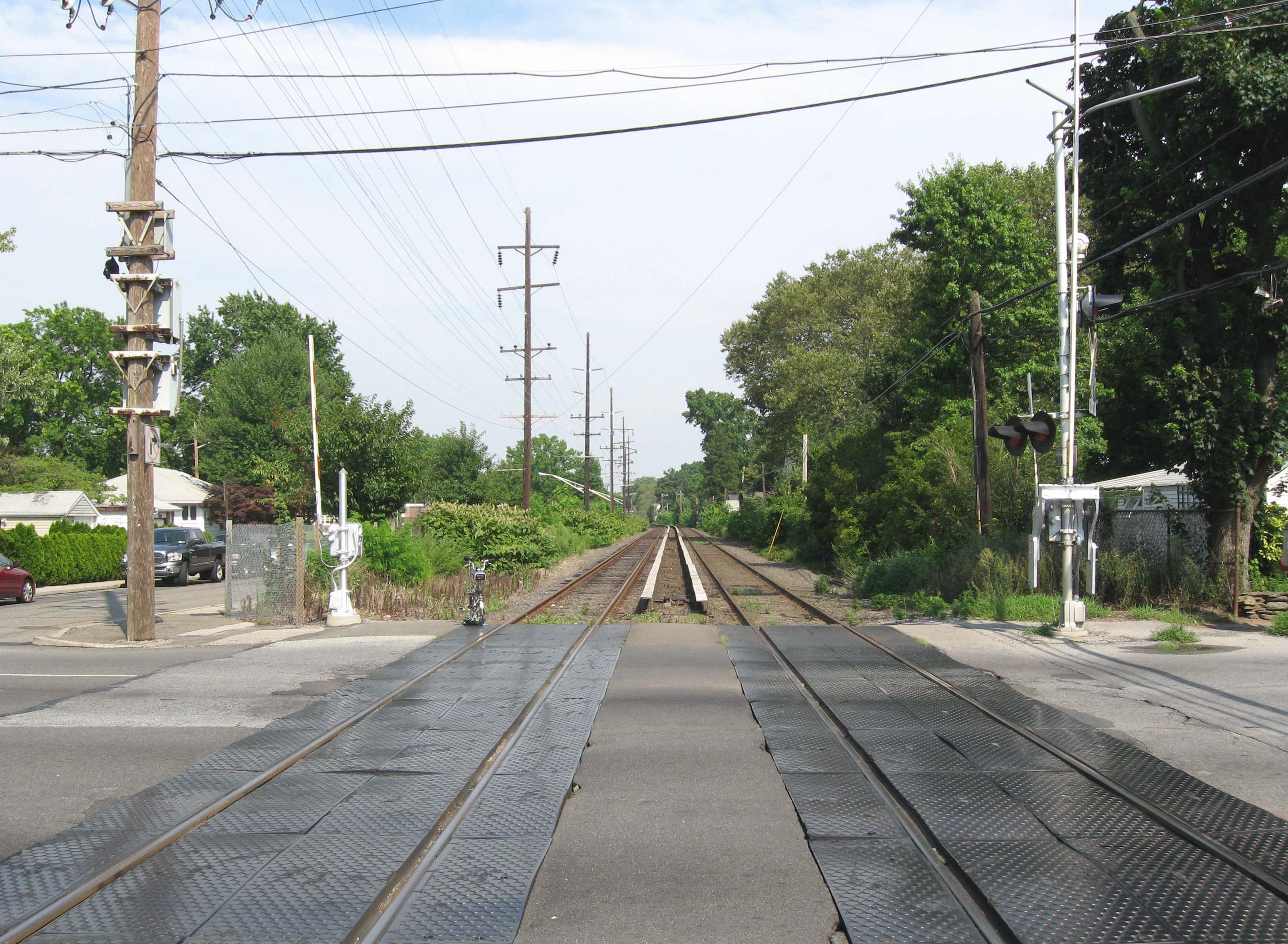 Looking east towards Stewart Manor station at Covert Avenue grade crossing of Hempstead Branch on a clearing early afternoon.